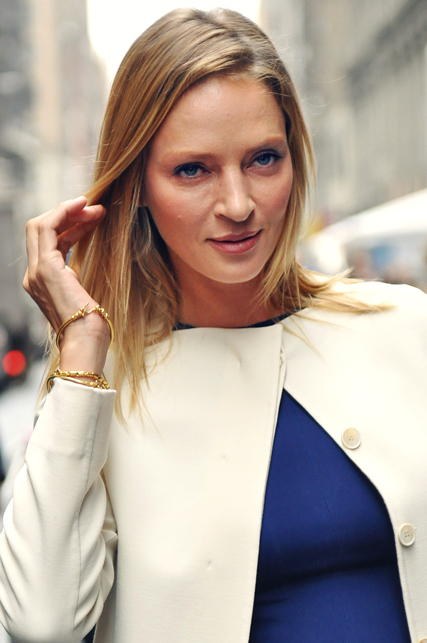 Uma Thurman, photographed in 2011 by Jiyang Chen, attending the Calvin Klein Collection Spring 2012 fashion show at Mercedes-Benz Fashion Week in New York City